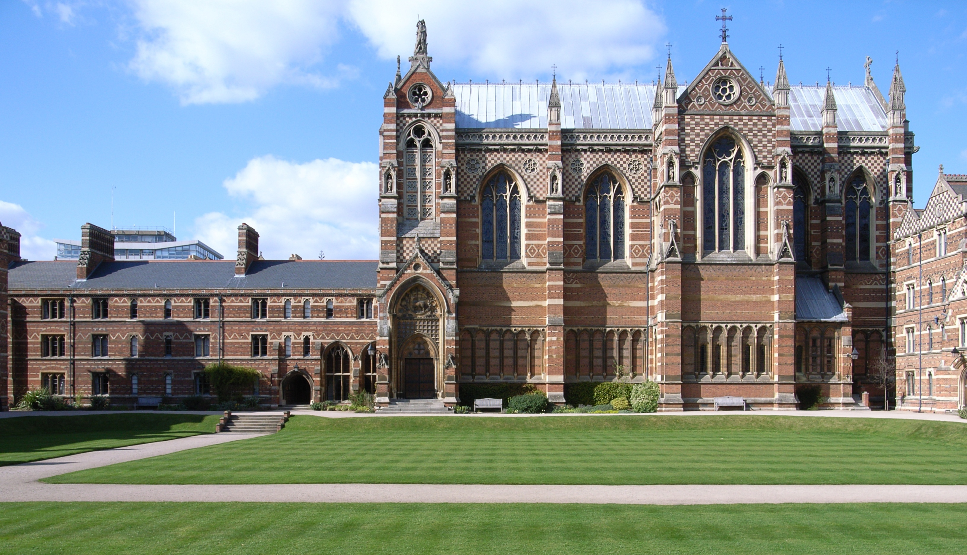 North range of Keble College, Oxford, with the chapel on the right